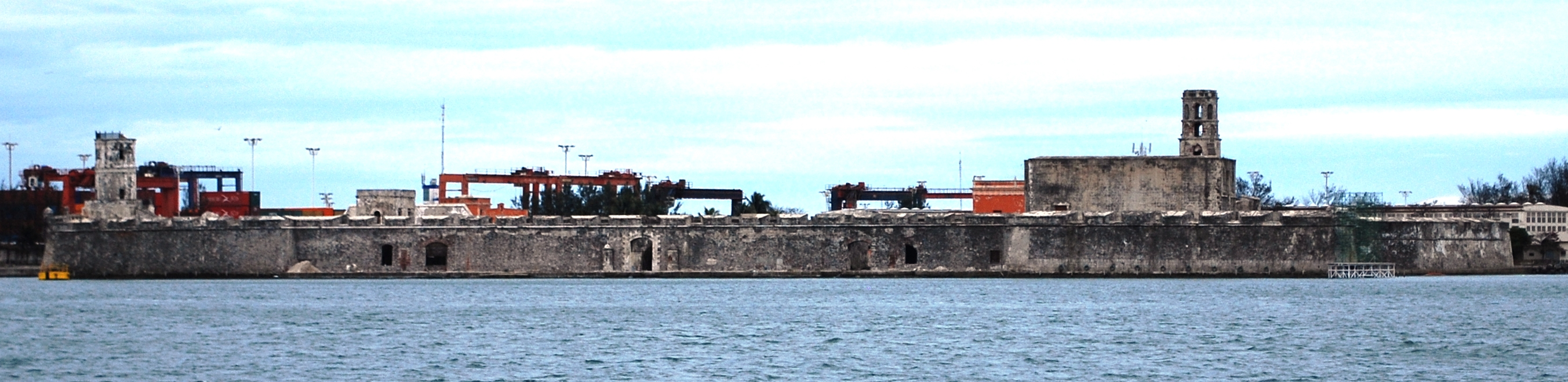 Fort San Juan de Ulua as seen from the boardwalk of Veracruz, Mexico